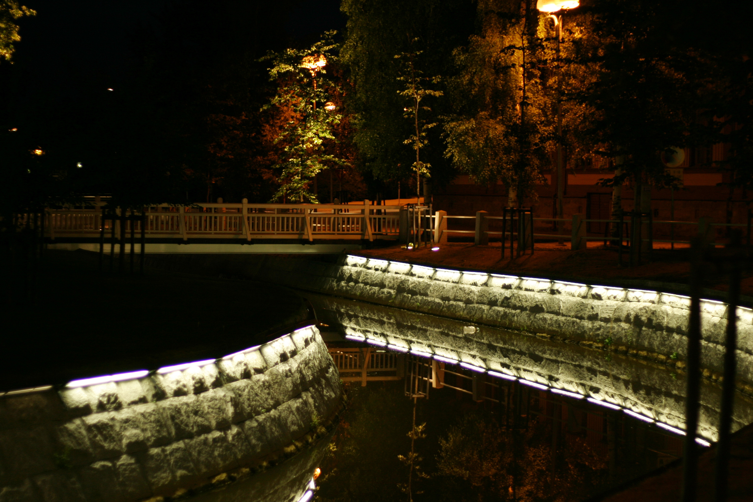 Creek channel illuminated in a Pokkinen district city park's landscape lighting, in Oulu, Finland.